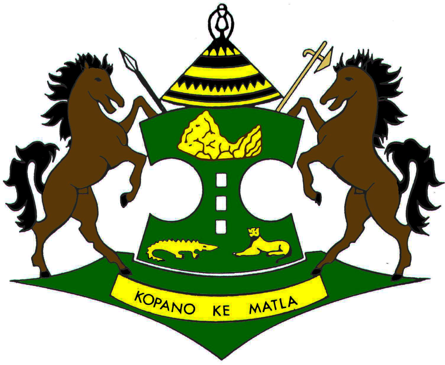 QwaQwa coat of arms